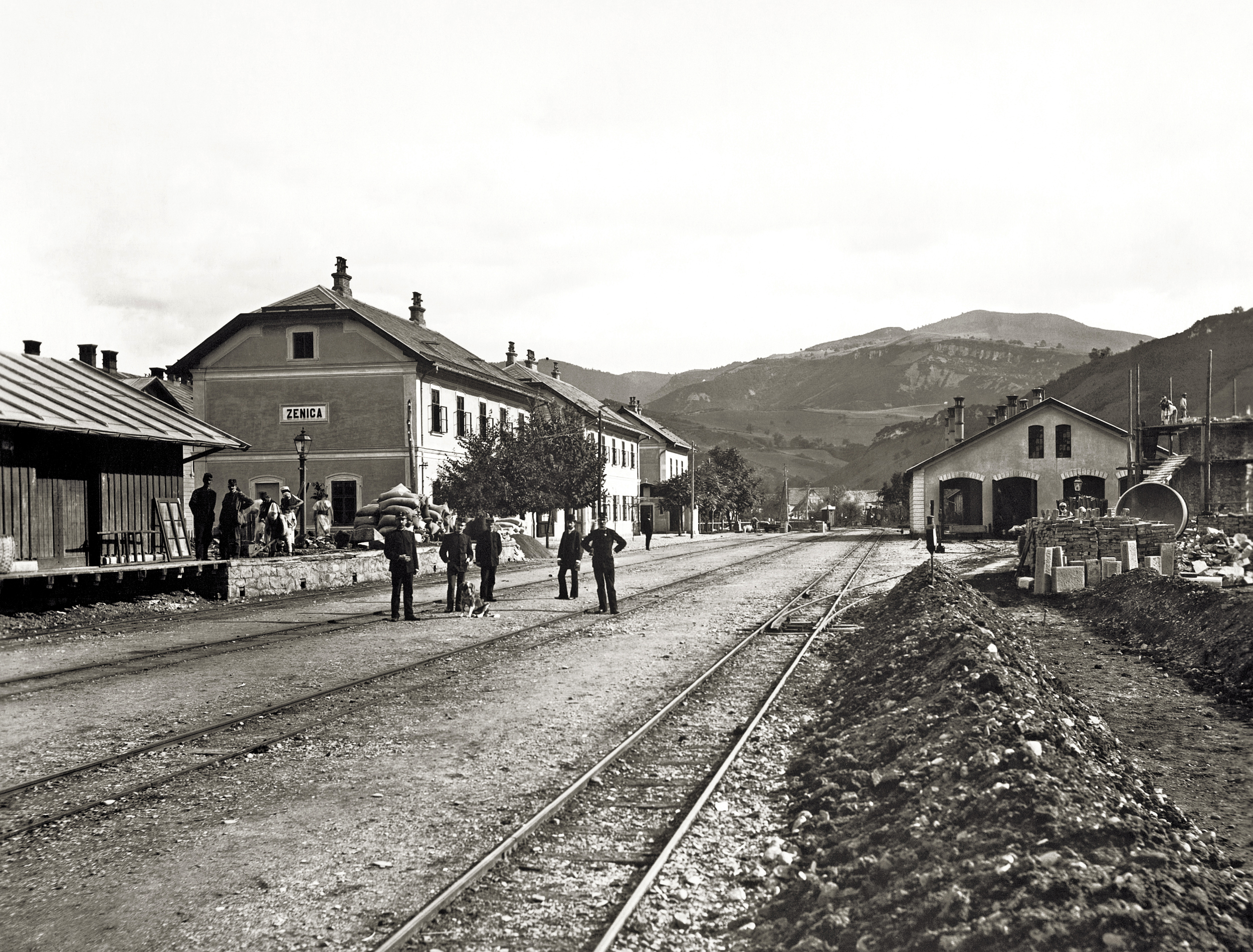 Narrow-gauge train station in Zenica